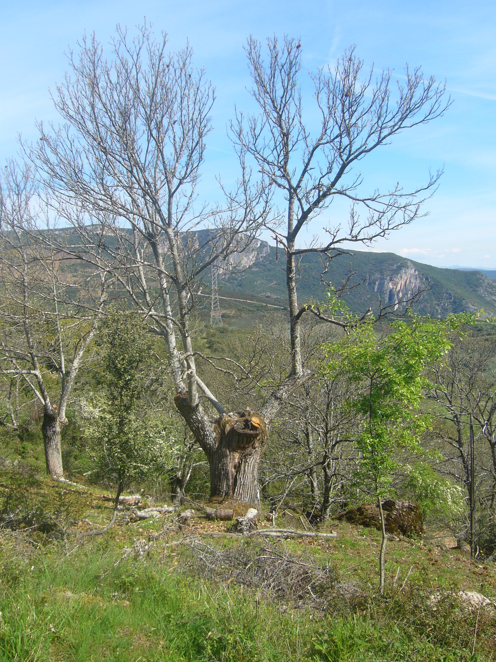 Castanea sativa (Sweet Chestnut) in the Natural Park of Serra de Enciña de Lastra, Orense, Galicia, Spain.